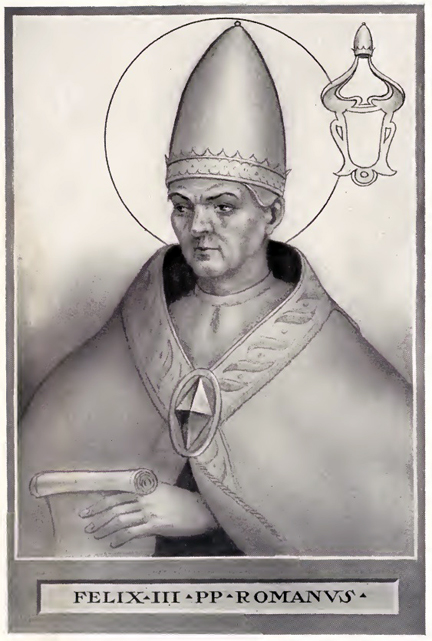 This illustration is from The Lives and Times of the Popes by Chevalier Artaud de Montor, New York: The Catholic Publication Society of America, 1911. It was originally published in 1842.